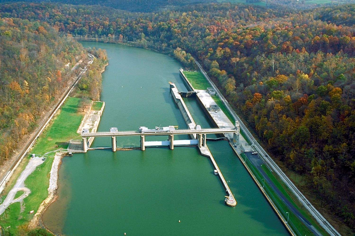 Opekiska Lock and Dam on the Monongahela River. The dam is located about seven miles northeast (downriver) from Fairmont, West Virginia, at river mile 115.4. The lock and dam were constructed 1961–64 by the U.S. Army Corps of Engineers to improve navigation on the Monongahela River, replacing 60-year-old locks 14 and 15. View is downriver to the northeast.